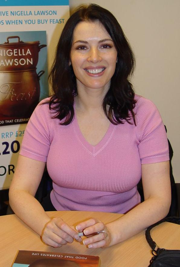 Nigella Lawson at a Borders book-signing